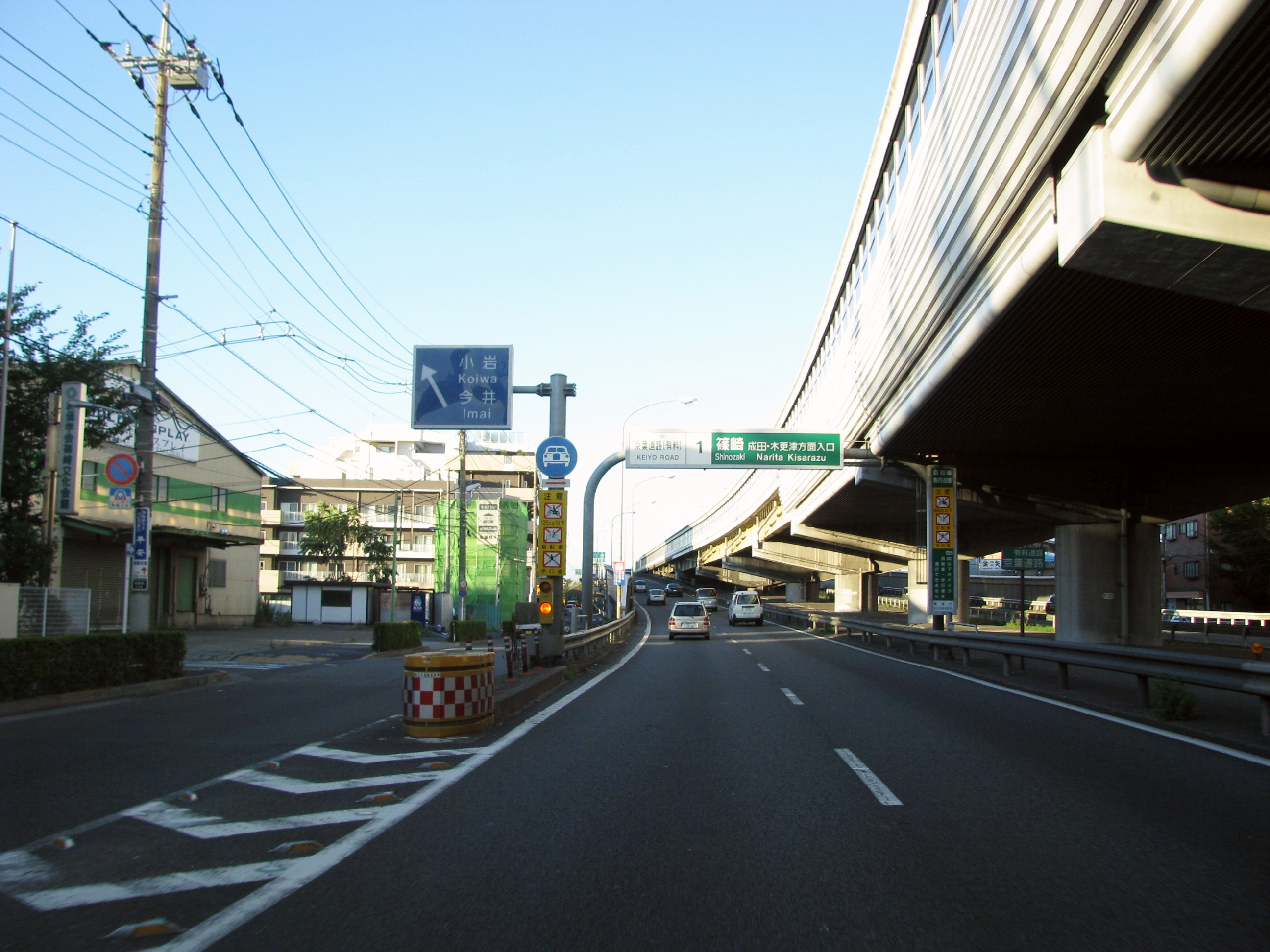 The Shinozaki interchange of a Keiyō road. This located is Shinnozaki in Edogawa, Tokyo, Japan.